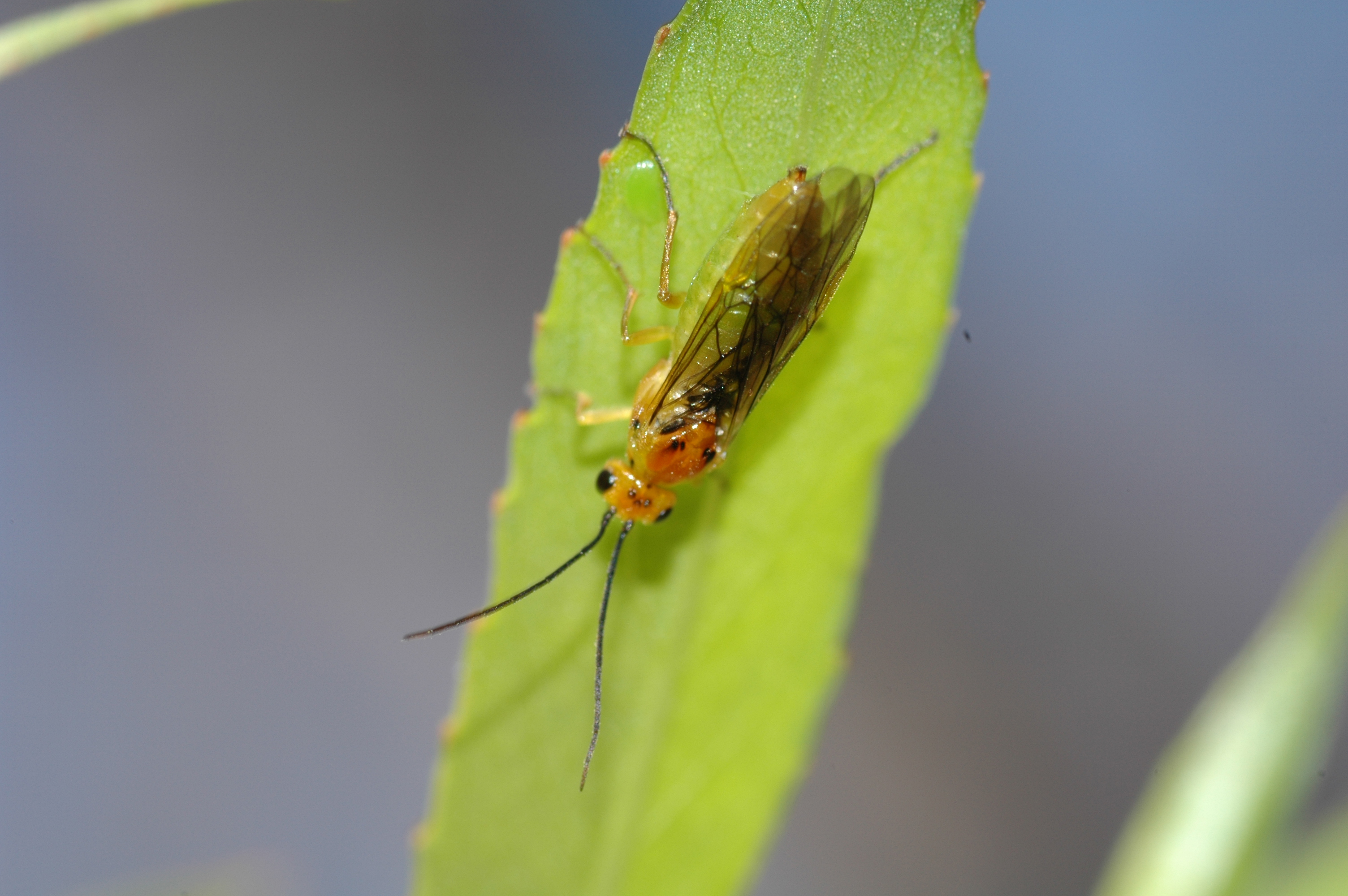 An adult of the willow sawfly, Nematus oligospilus, in Canberra, ACT